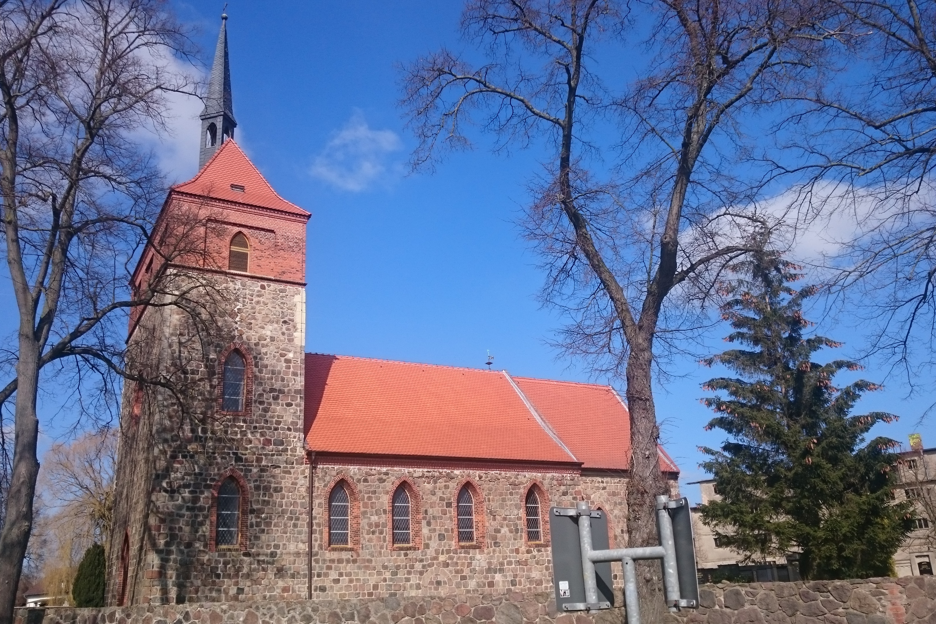 Southern view of Wesendahl church, Altlandsberg municipality, Märkisch-Oderland district, Brandenburg state, Germany